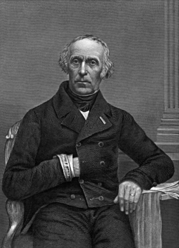 Portrait of François Guizot (1778-1874), French politican